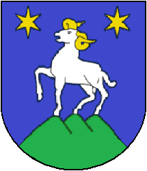 Shield of the District of Hérens, Canton of Valais - Blazono de la Distrikto Hérens, Kantono Valezo